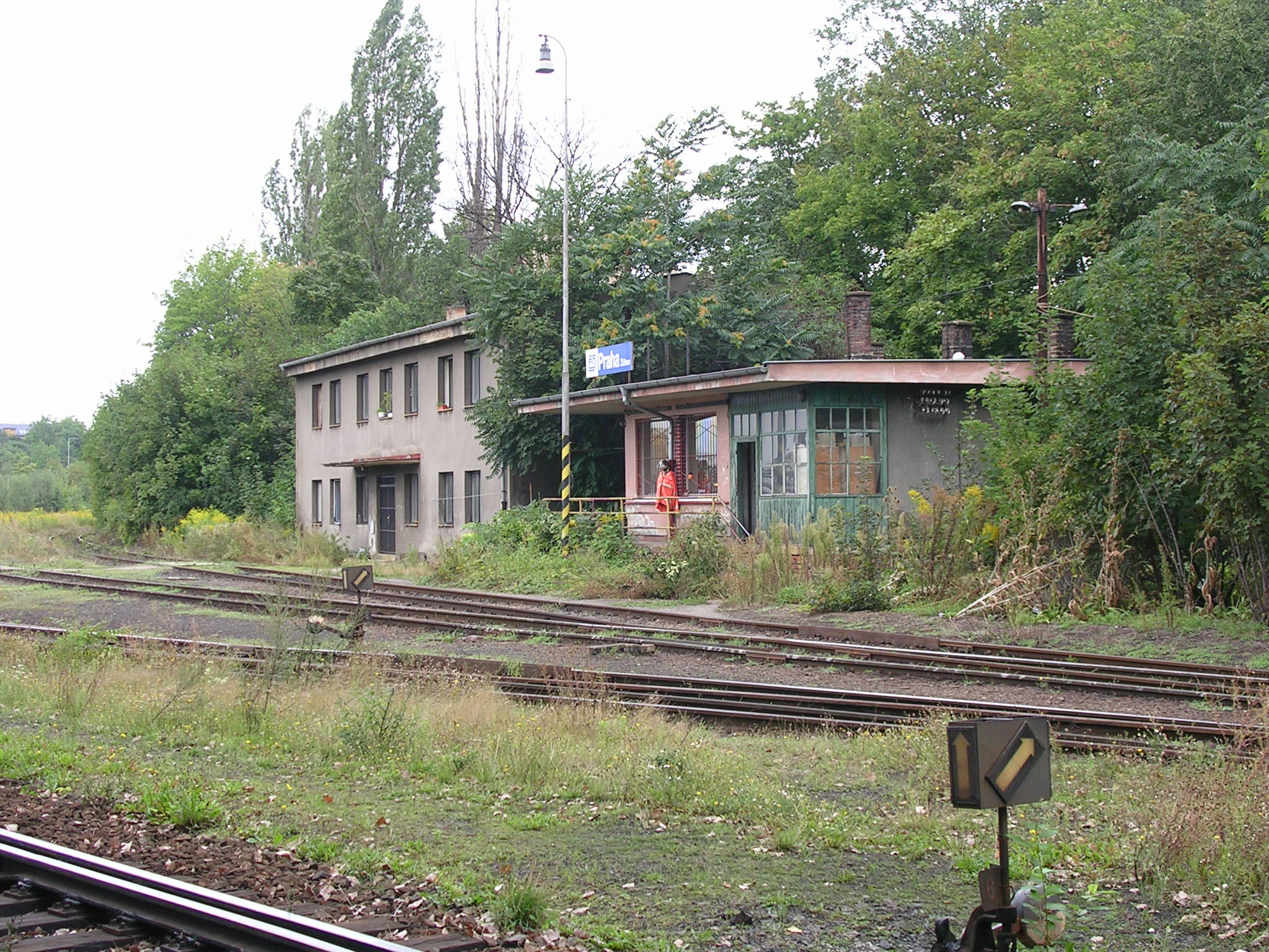 Žižkov, Prague, the Czech Republic. Freight station.